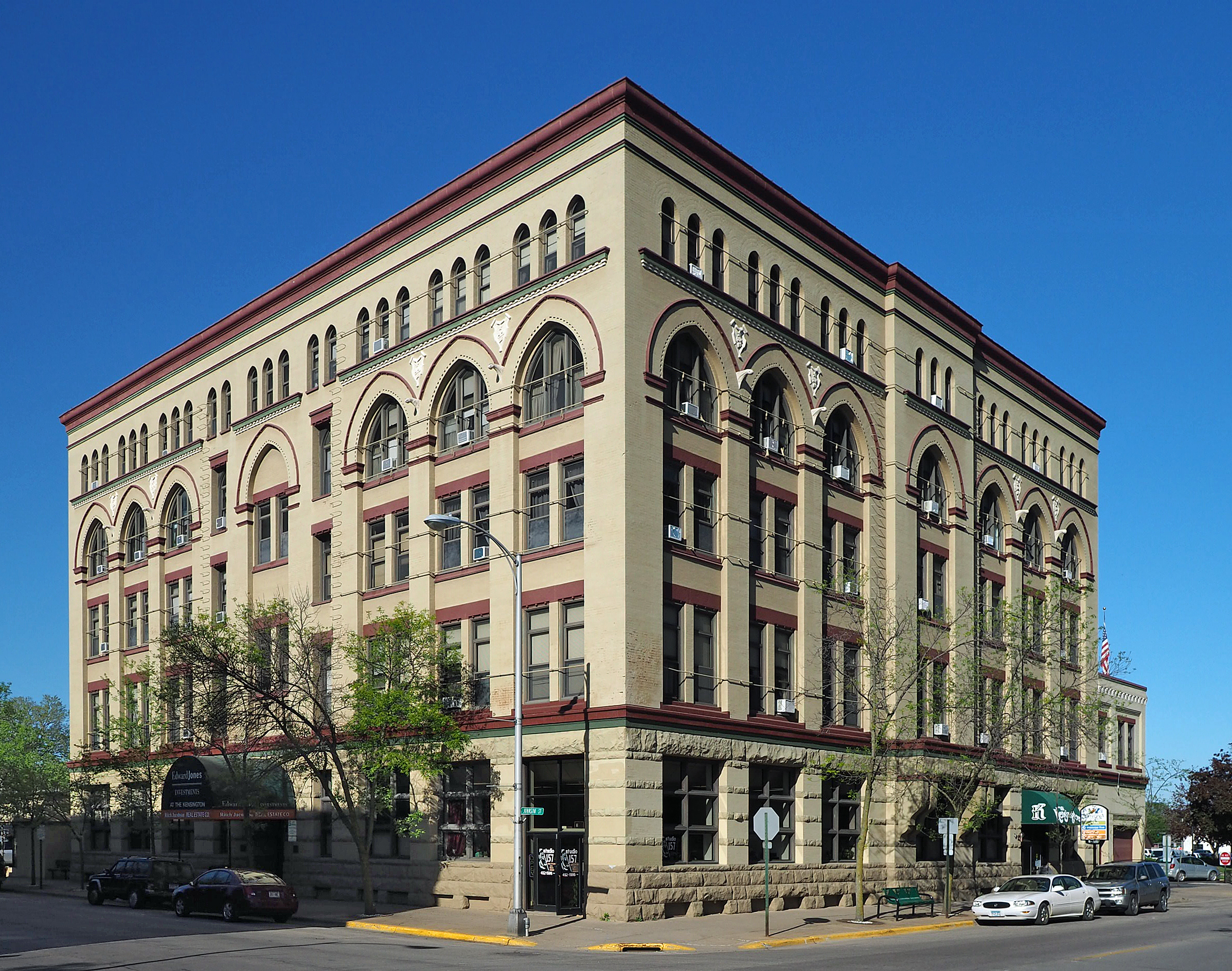 Winona Hotel (now The Kensington apartments), 157 W 3rd St, Winona, Minnesota, USA. Viewed from the northeast.